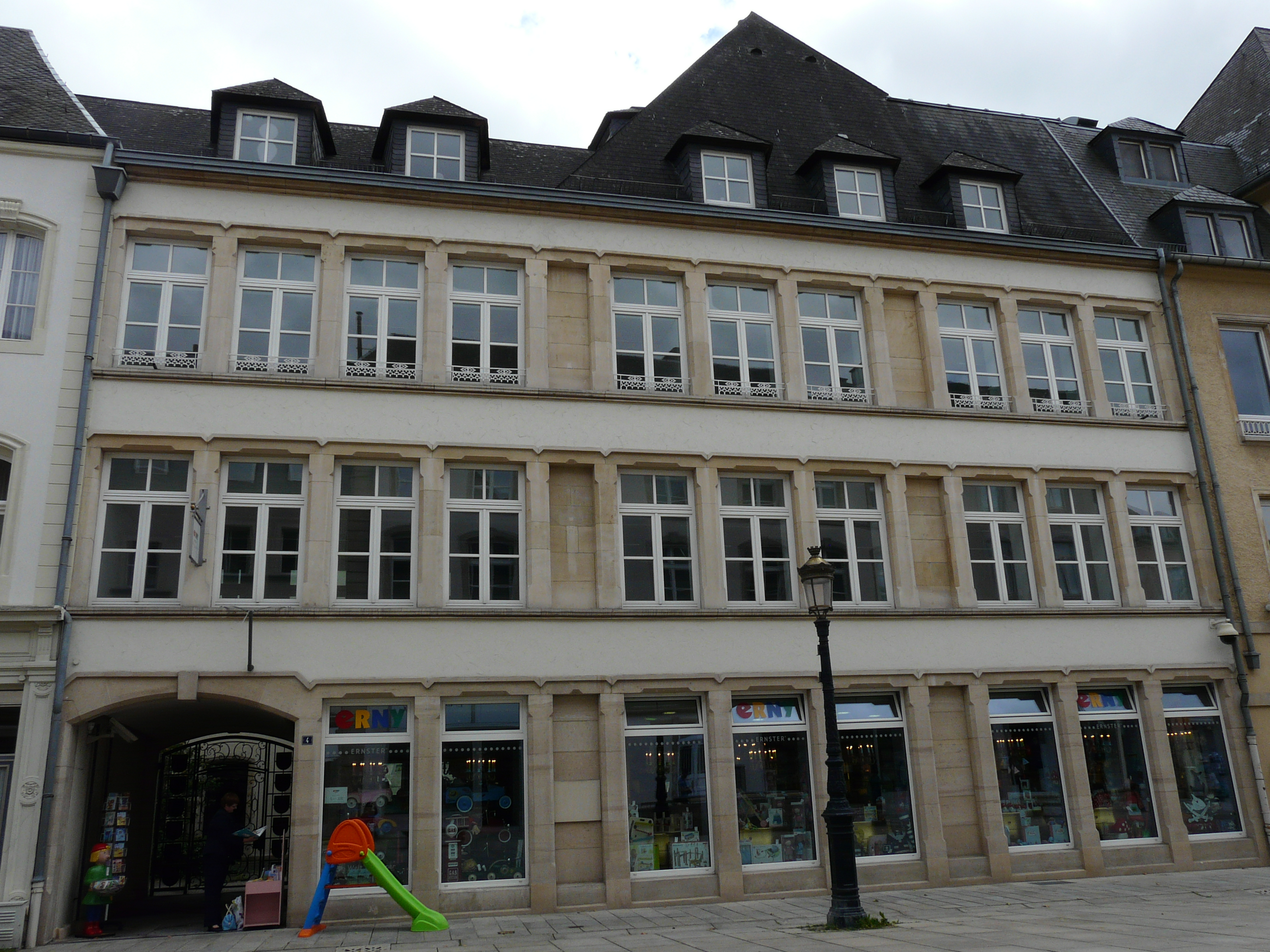 4 rue de la Reine